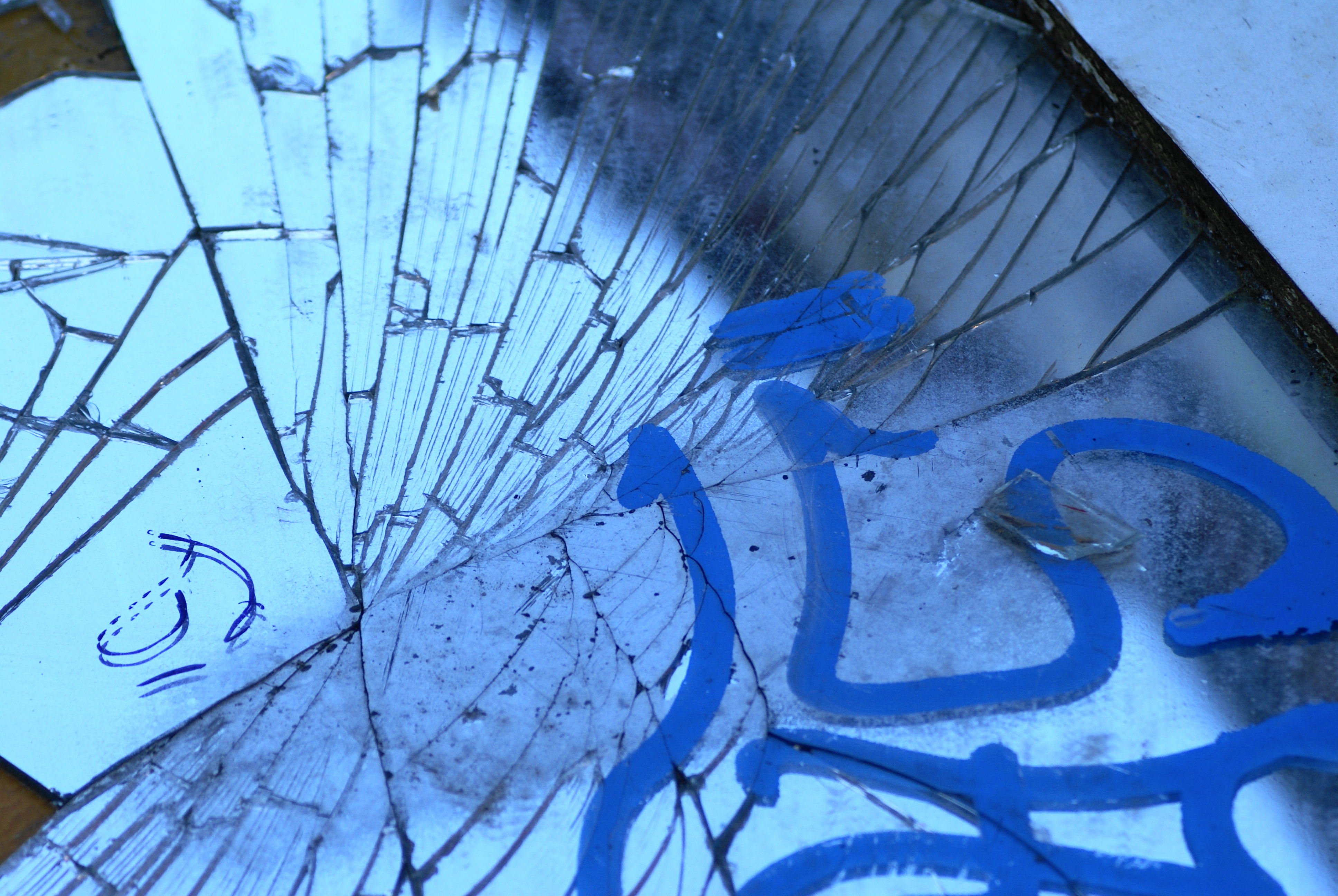 Broken painted mirror